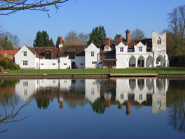 Medmenham Abbey The mansion built in 1595 on the site of a Cistercian abbey. To the right are the ruined folly tower and cloister that were added in 1755 for Sir Francis Dashwood.